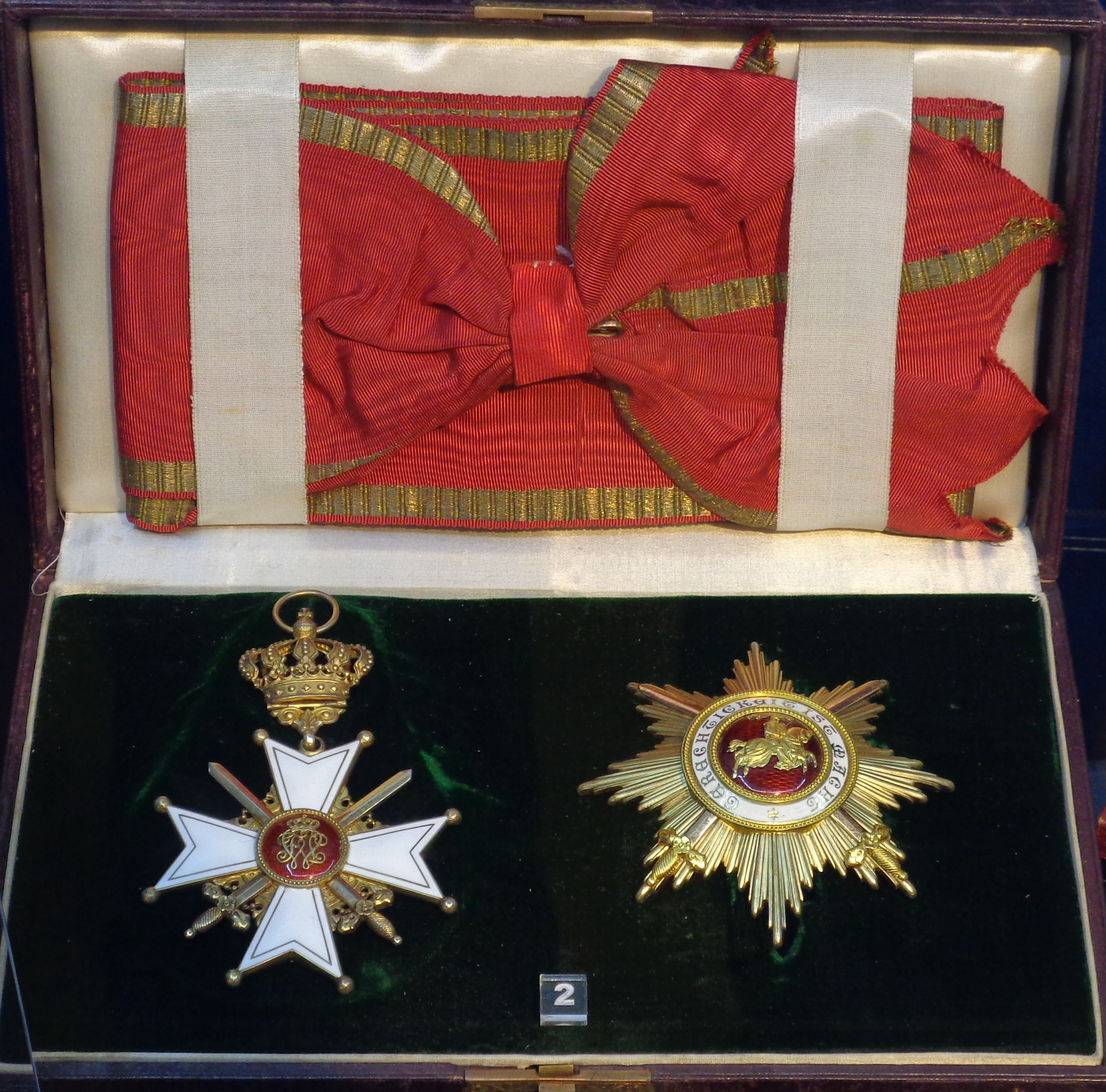 Order of Berthold I, insignias of Grand Cross with swords, c.1880. Grand Duchy of Baden. The exhibition of the Tallinn Museum of Orders of Knighthood, Estonia.